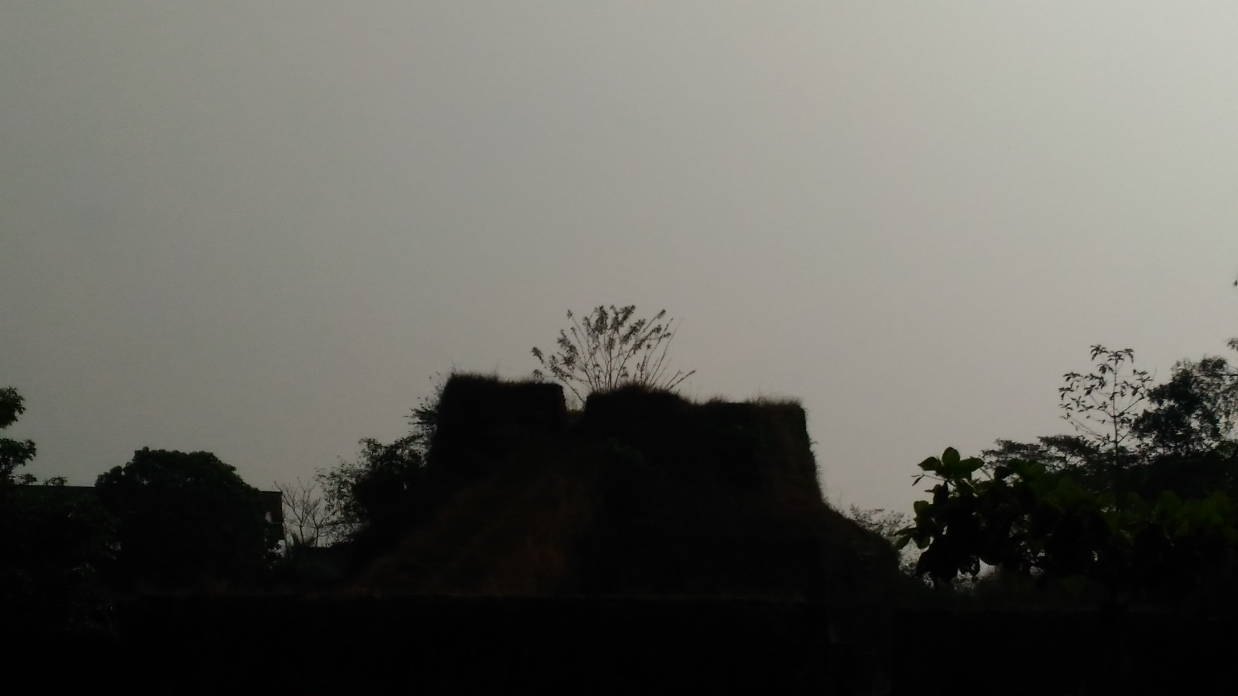 A view of Hosdurg fort